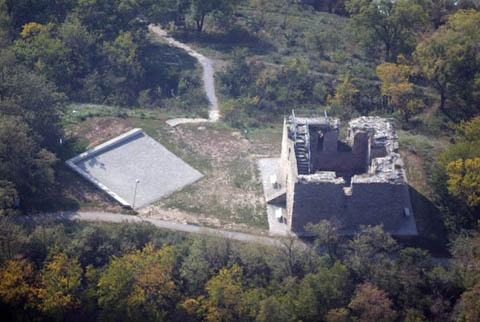 Neusiedl am See, Burgenland, Austria, aerialphotography